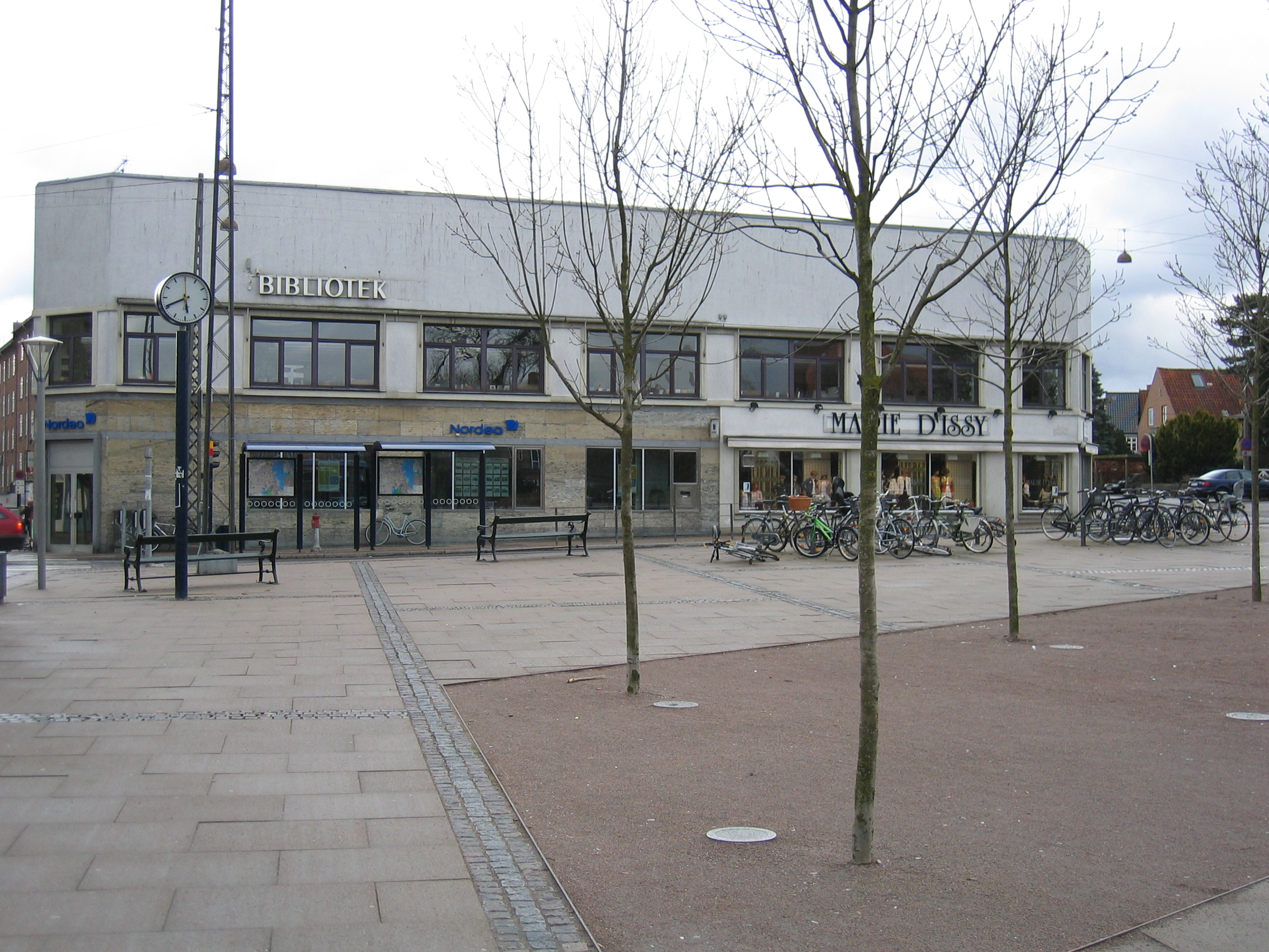 Brønshøj public library, Denmark